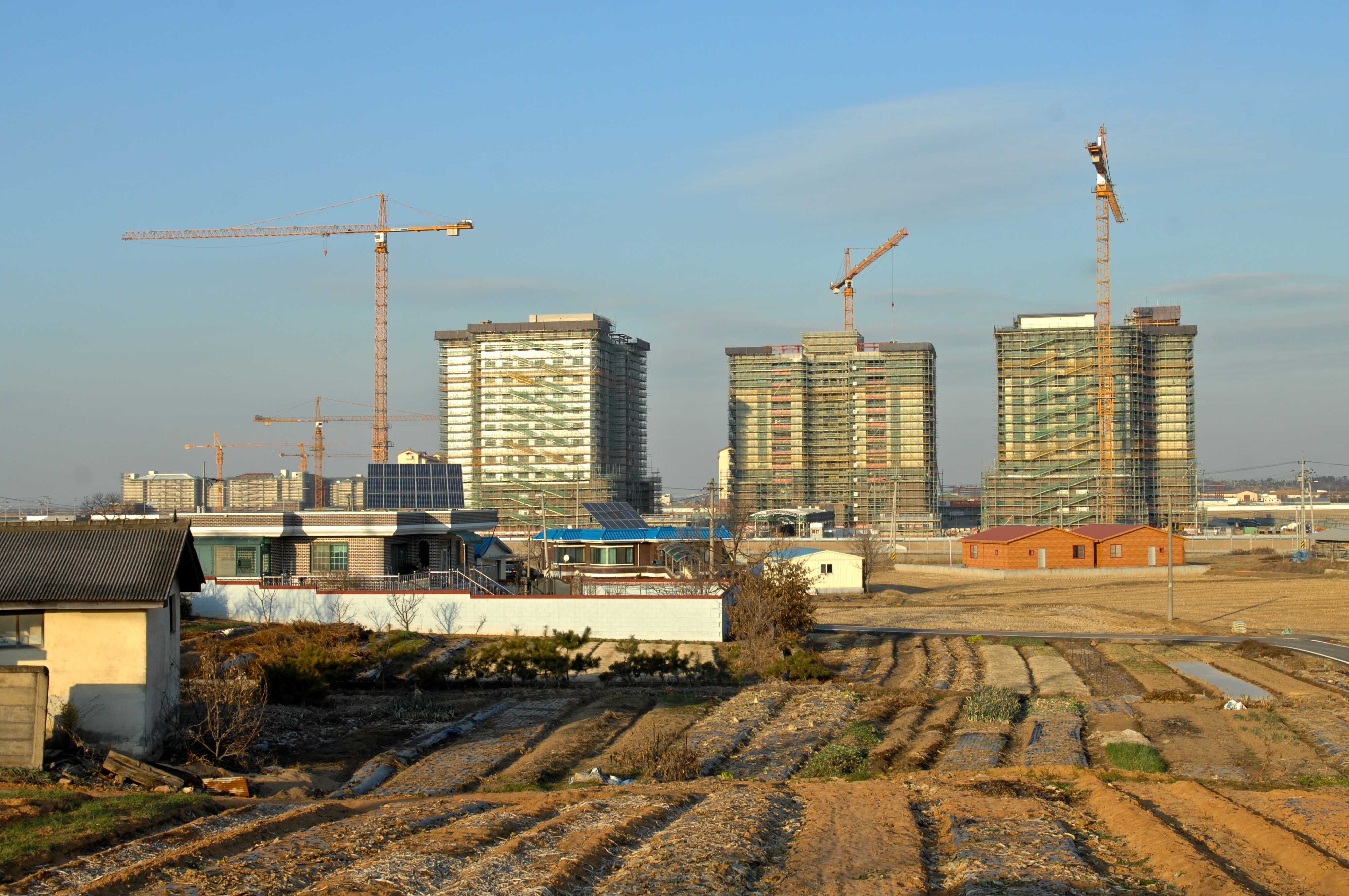 Construction of three family housing towers on Camp Humphreys. U.S. Army Garrison Humphreys official image archive